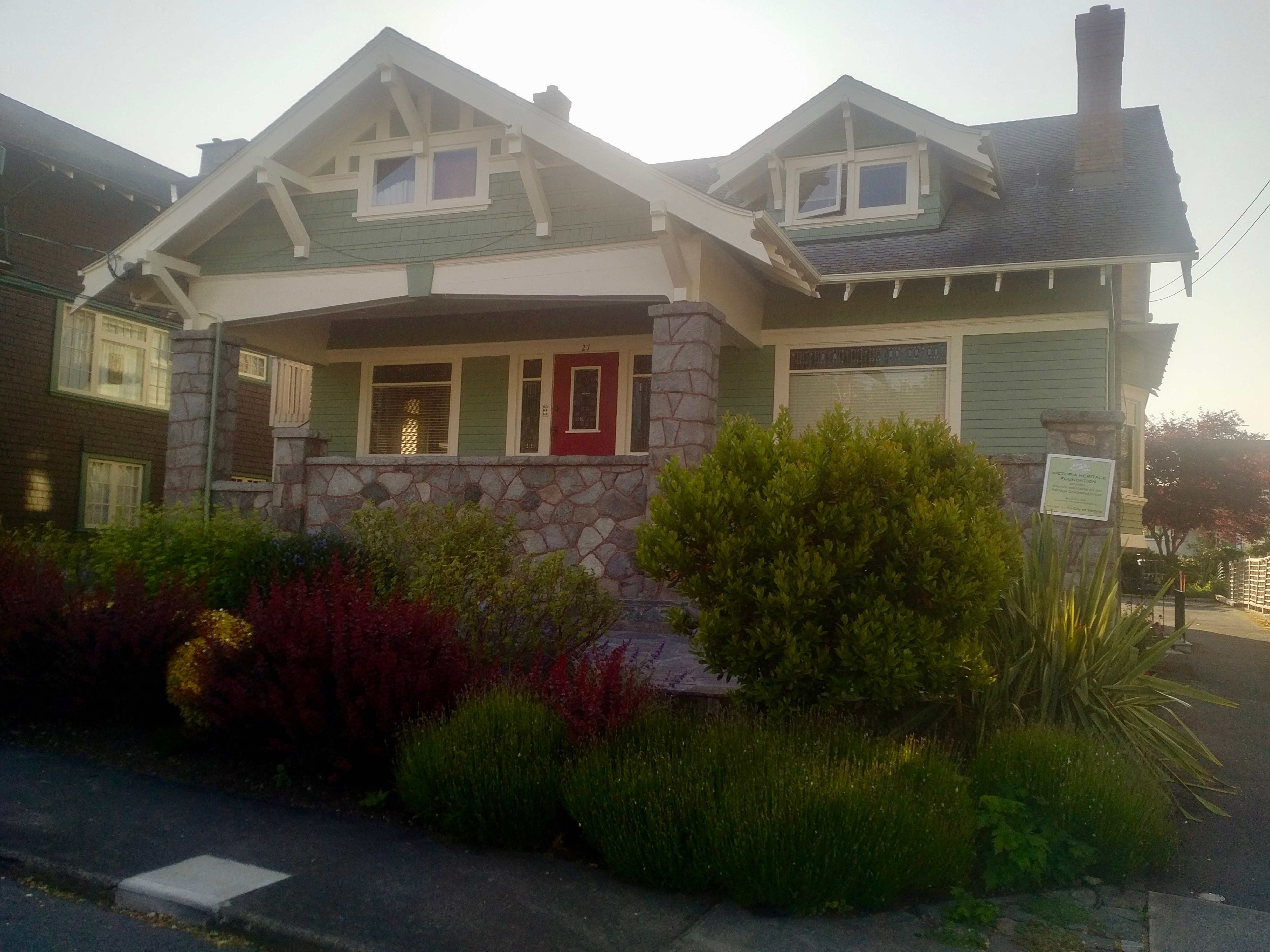 27 Olympia Avenue